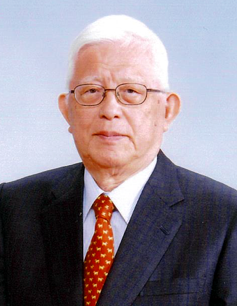 Michio Muramatsu, Professor Emeritus of Kyoto University, received the Person of Cultural Merit on November, 2017.